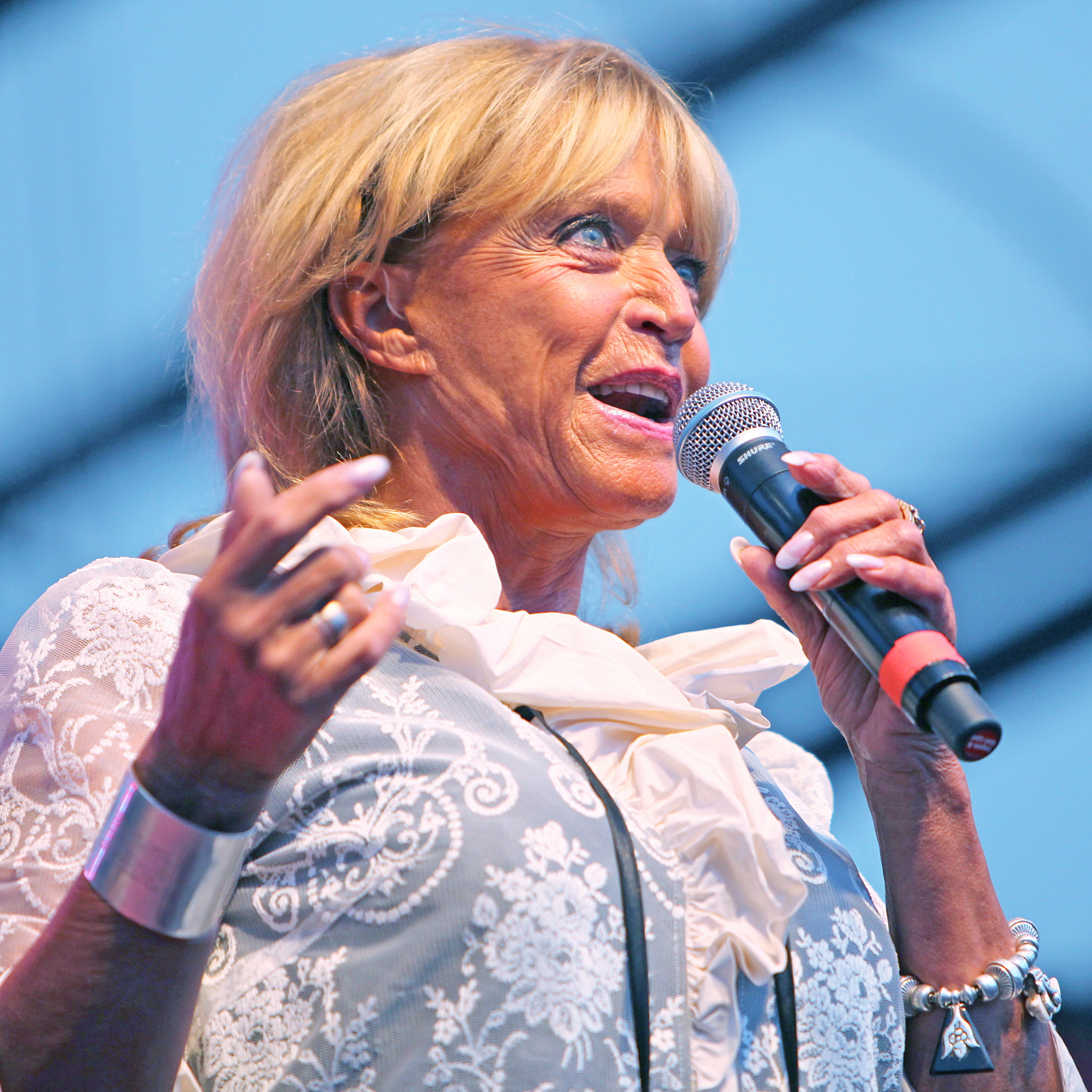 Swedish musician Lill-Babs. Photo taken during Stockholm Pride 2009.